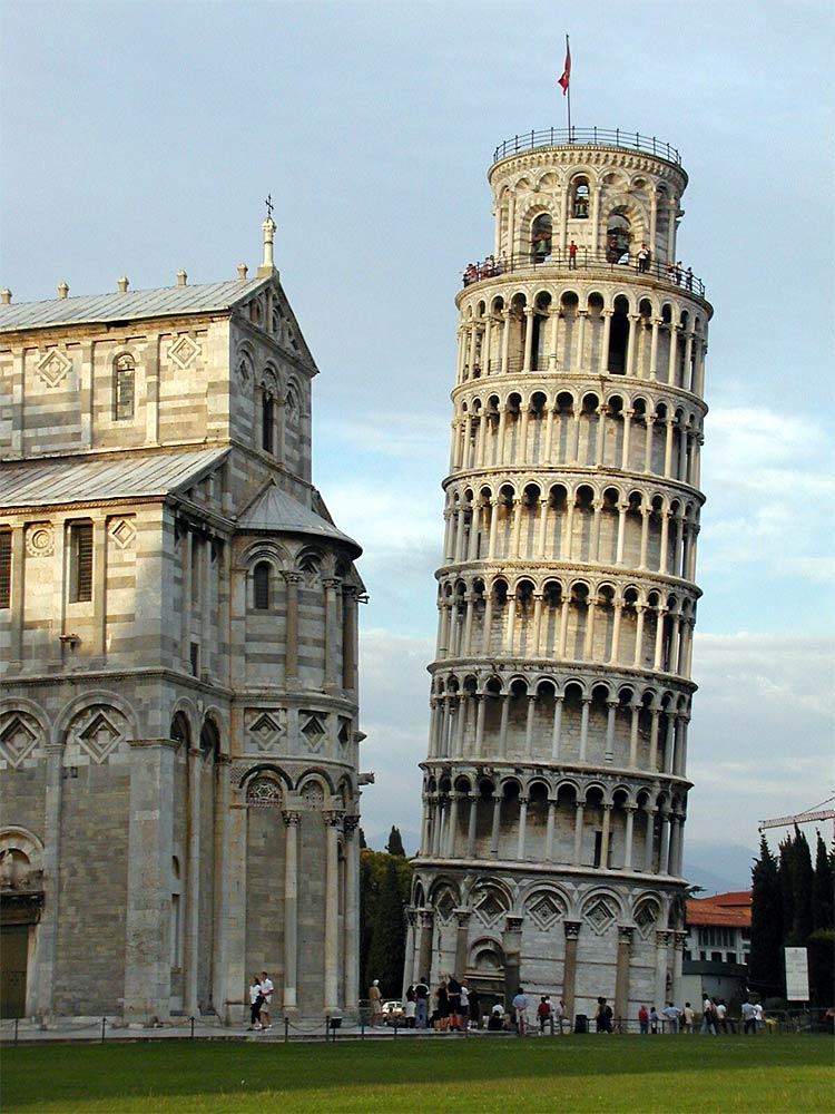 The Leaning Tower of Pisa